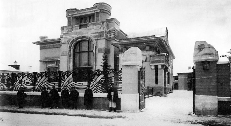 Derozhinskaya House in Moscow (as of 2010, residence of Australian ambassador. Photograph made shortly after construction (1902)